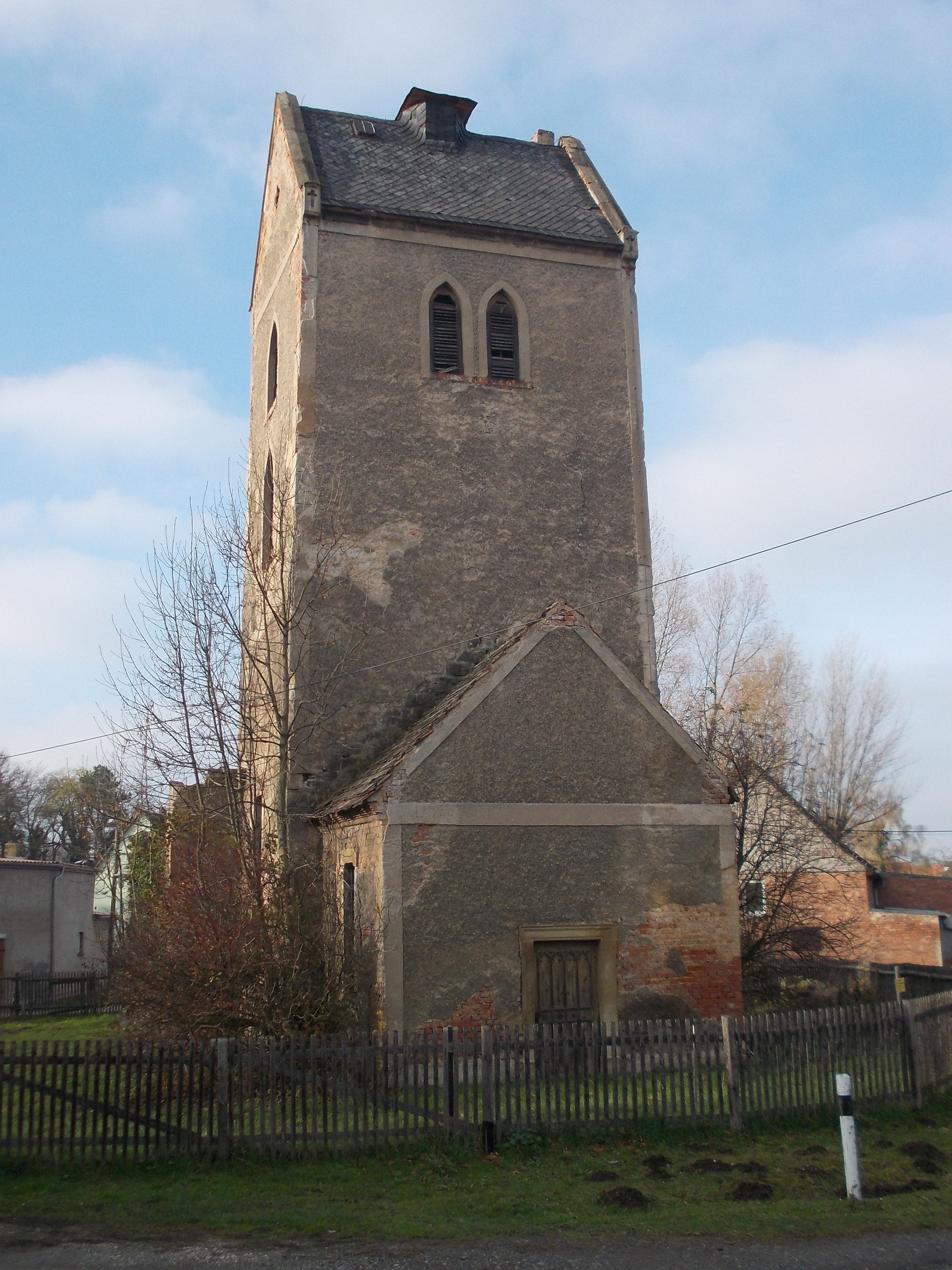 Ruins of Plennschütz church (Teuchern, district: Burgenlandkreis, Saxony-Anhalt)